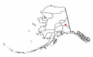 Adapted from Wikipedia's AK borough maps by Seth Ilys.